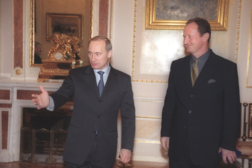 THE KREMLIN, MOSCOW. With Ukrainian minister of internal affairs Yury Kravchenko.